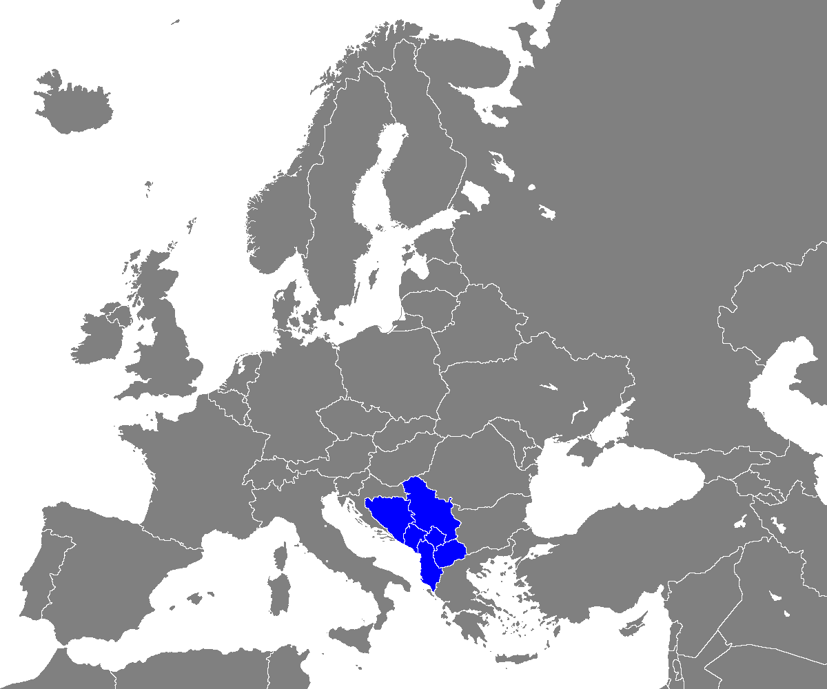 Map of countries of Western Balkans (2013)